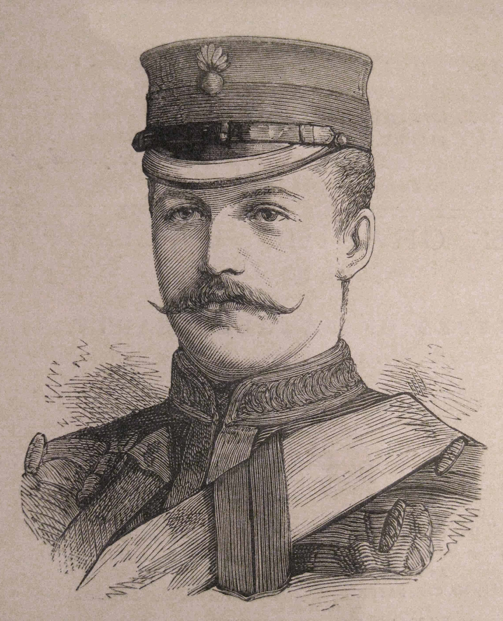 Engraving